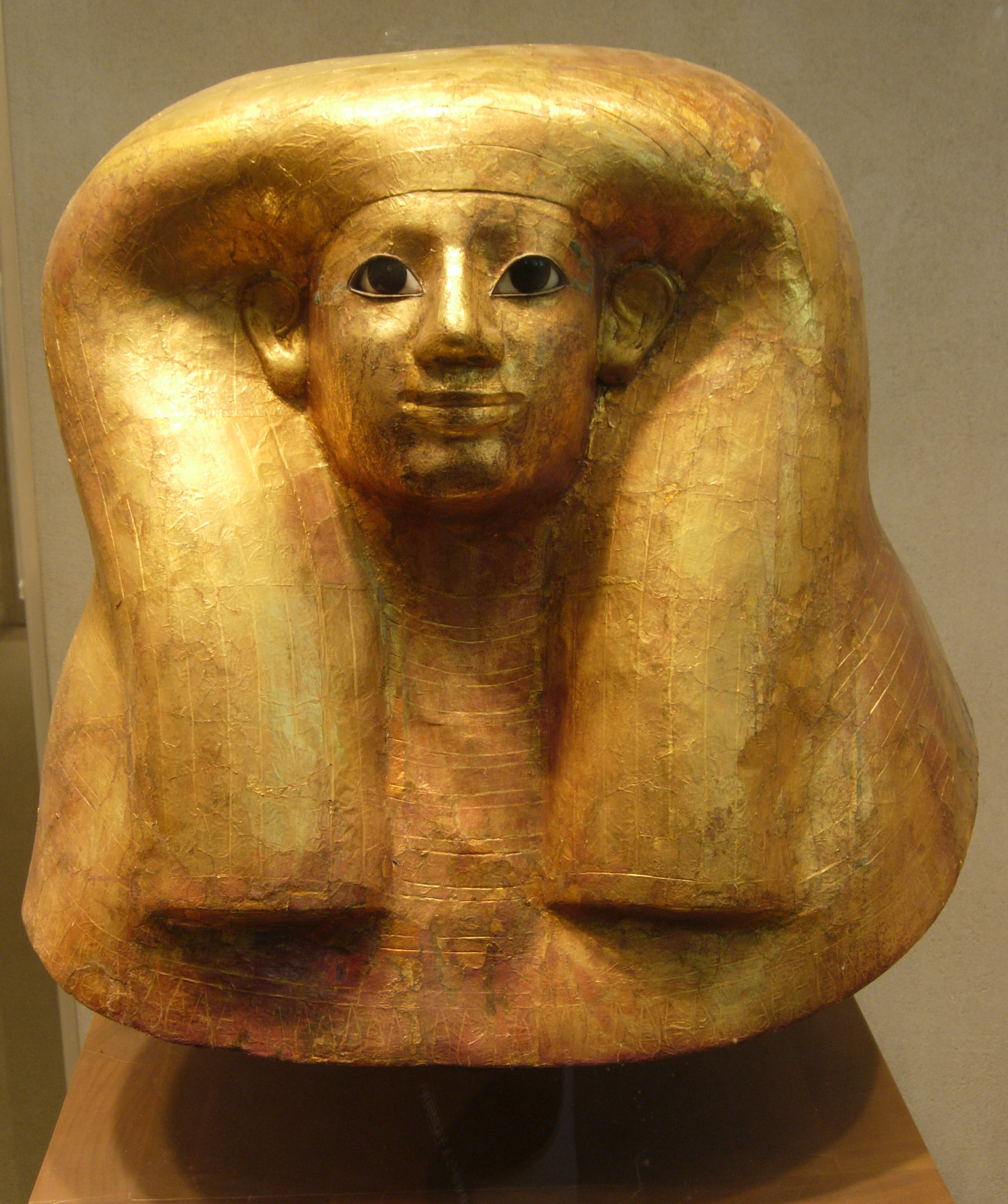 Mask, Hatnefer, cartonnage